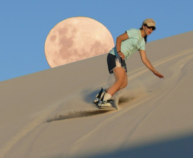 Ladybird Sandboarding at Atlantis Dunes